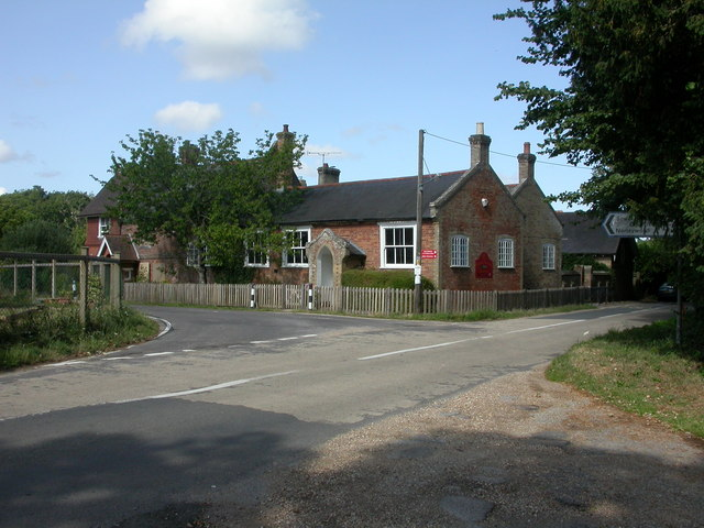 South Baddesley CoE Primary School On South Baddesley Road; there is also a modern building out of sight to the North-east.